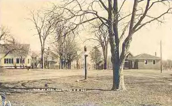 Main Street in 1914, East Hampstead, NH; from an old postcard.